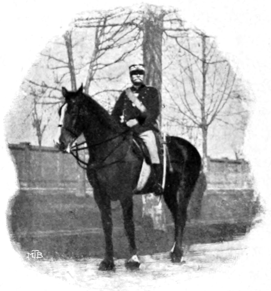 Image from book: Leopoldo Pullè, Patria Esercito Re, Ulrico Hoepli, Milan, 1908. - gen. Fiorenzo Bava Beccaris